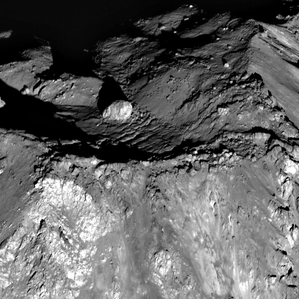 Tycho Central Peak Spectacular! Oblique view of summit area of Tycho crater central peak. The boulder in the background is 120 meters wide, and the image is about 1200 meters wide. On 10 June 2011 the LRO spacecraft slewed 65° to the west, allowing the LROC NACs to capture this dramatic sunrise view of Tycho crater. A very popular target with amateur astronomers, Tycho is located at 43.37°S, 348.68°E, and is ~82 km (51 miles) in diameter. The summit of the central peak is 2 km (6562 ft) above the crater floor, and the crater floor is about 4700 m (15,420 ft) below the rim. Many "clasts" ranging in size from 10 meters to 100s of meters are exposed in the central peak slopes. LROC NAC M162350671L,R [NASA/GSFC/Arizona State University].